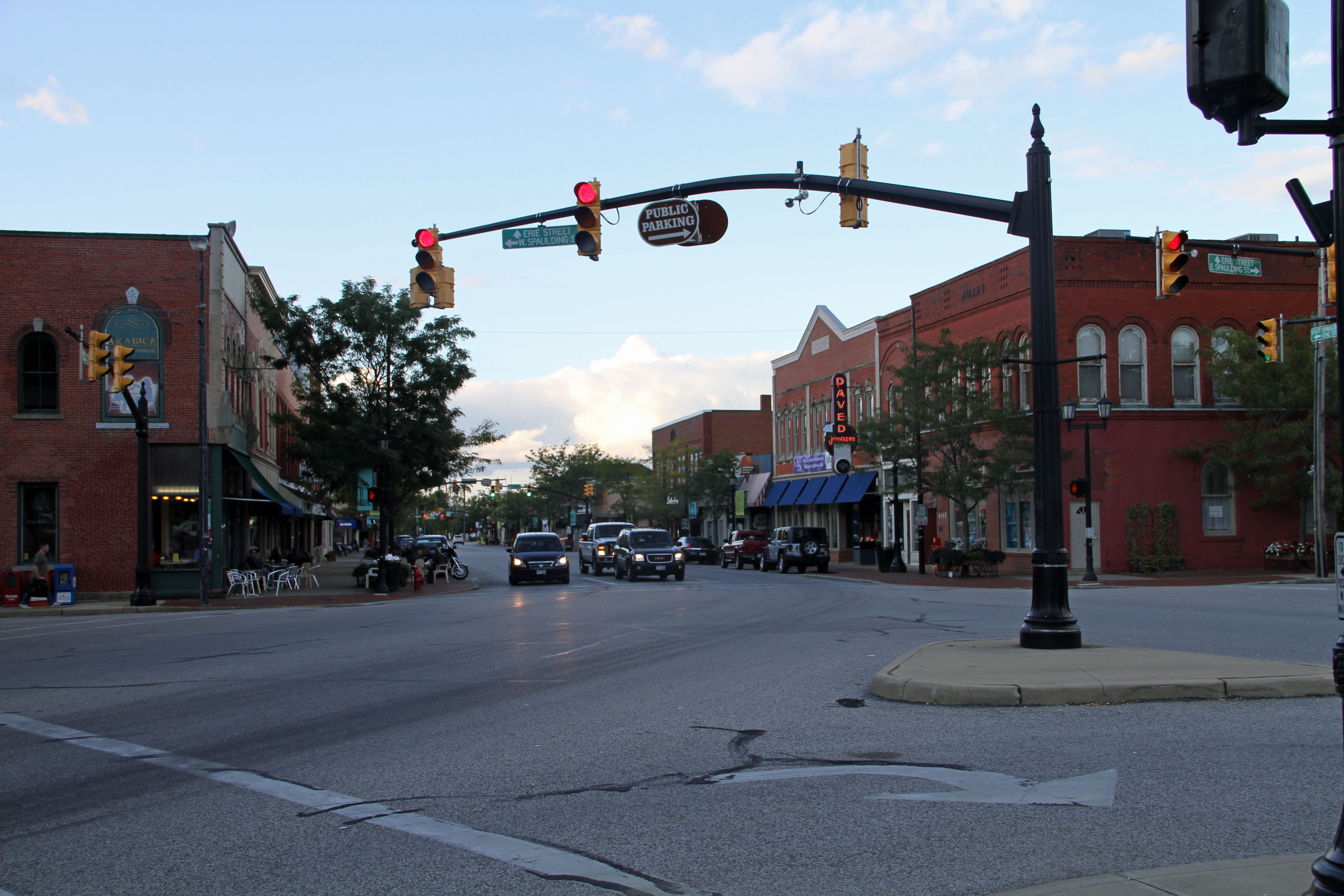 Downtown Willoughby Historic District Looking east on Erie St.